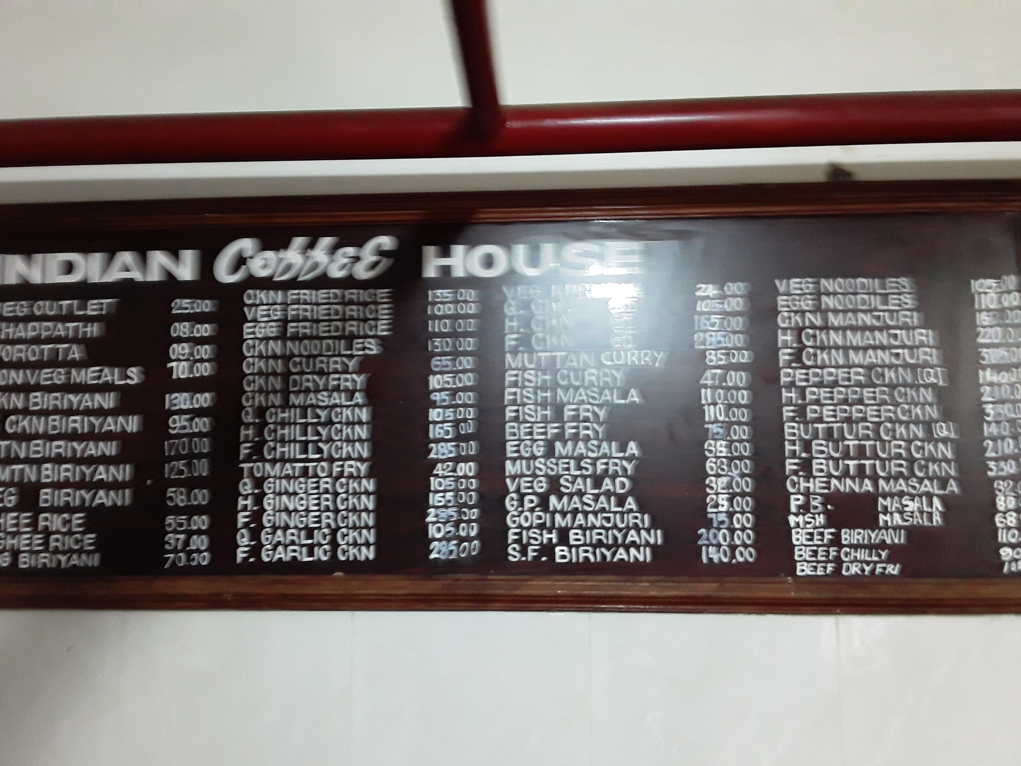 This restaurant offers hygienic and cheap items in an atmosphere of good ambience. It is a little bit crowded in the evening and a wait period of 20 minutes is essential. Egg curry is offered downstairs but fish and meat dishes are offered only in the first floor section. The lodge in the same building offers good bath attached rooms for as low as Rs.500. Locationː Mananthavady town, Wayanad district, Kerala state, India.